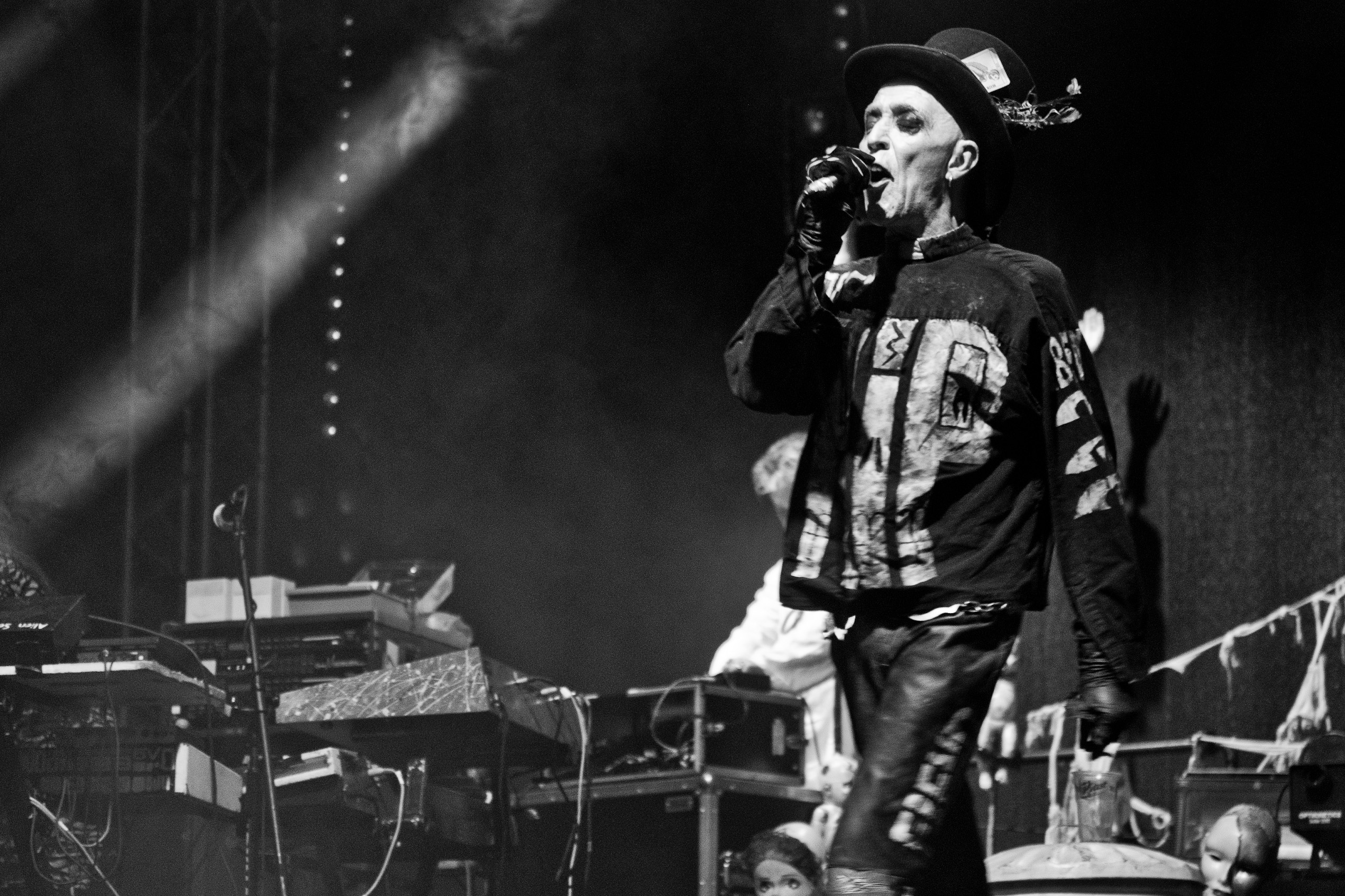 This photo was made in cooperation with CASTLE PARTY PRODUCTIONS in Bolków (webpage) Alien Sex Fiend podczas Castle Party 2012